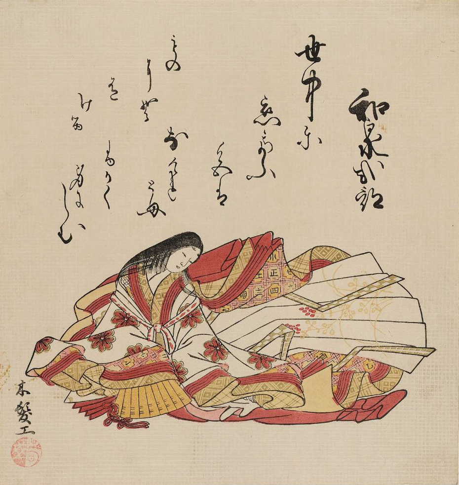 Izumi Shikibu 11th century Japanese poet